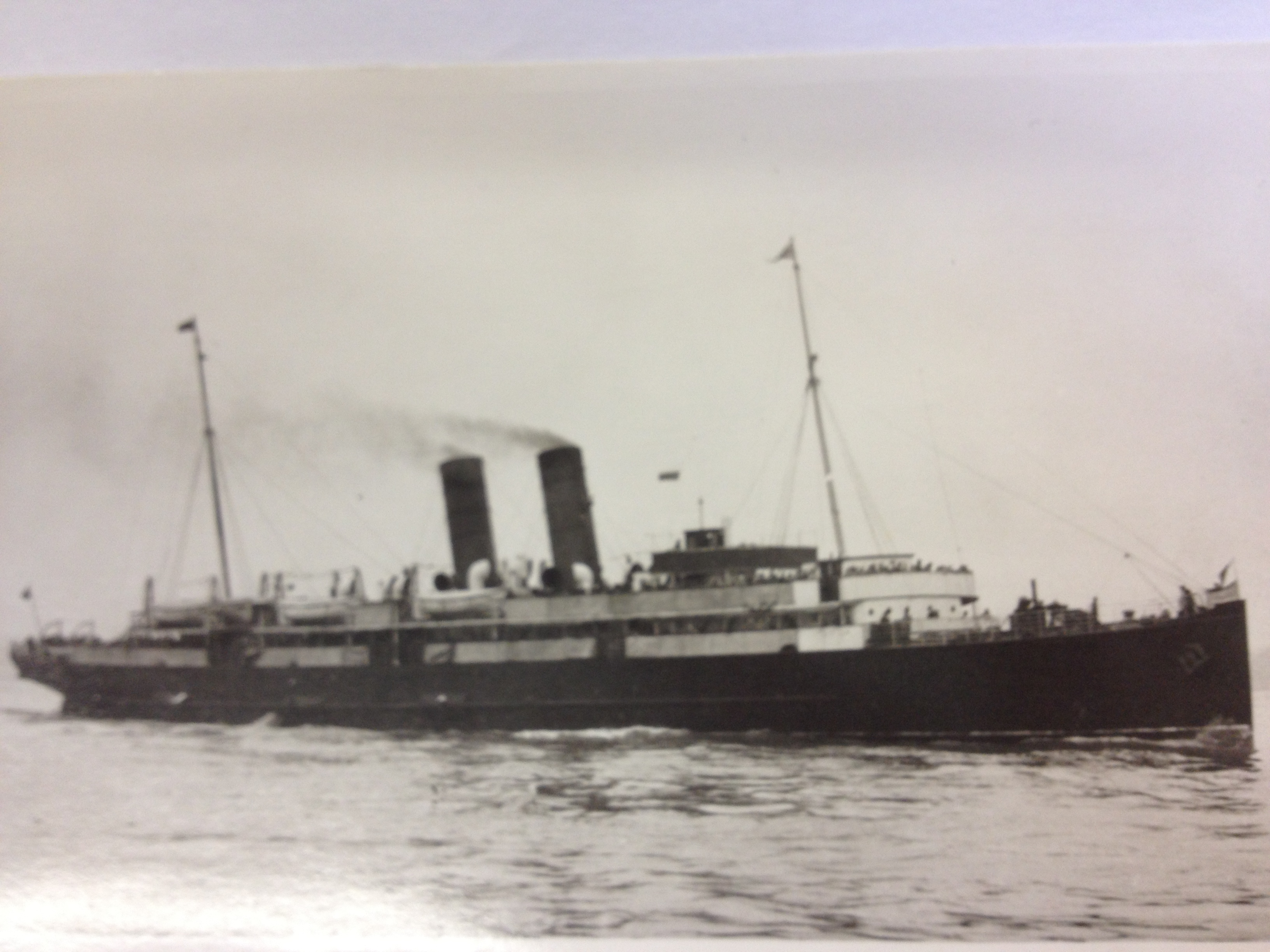 Isle of Man Steam Packet Company vessel Ramsey Town at sea